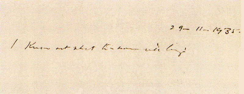 Fernando Pessoa last writing: "29-11-1935 'I know not what tomorrow will bring'". He died next day November 30, 1935.